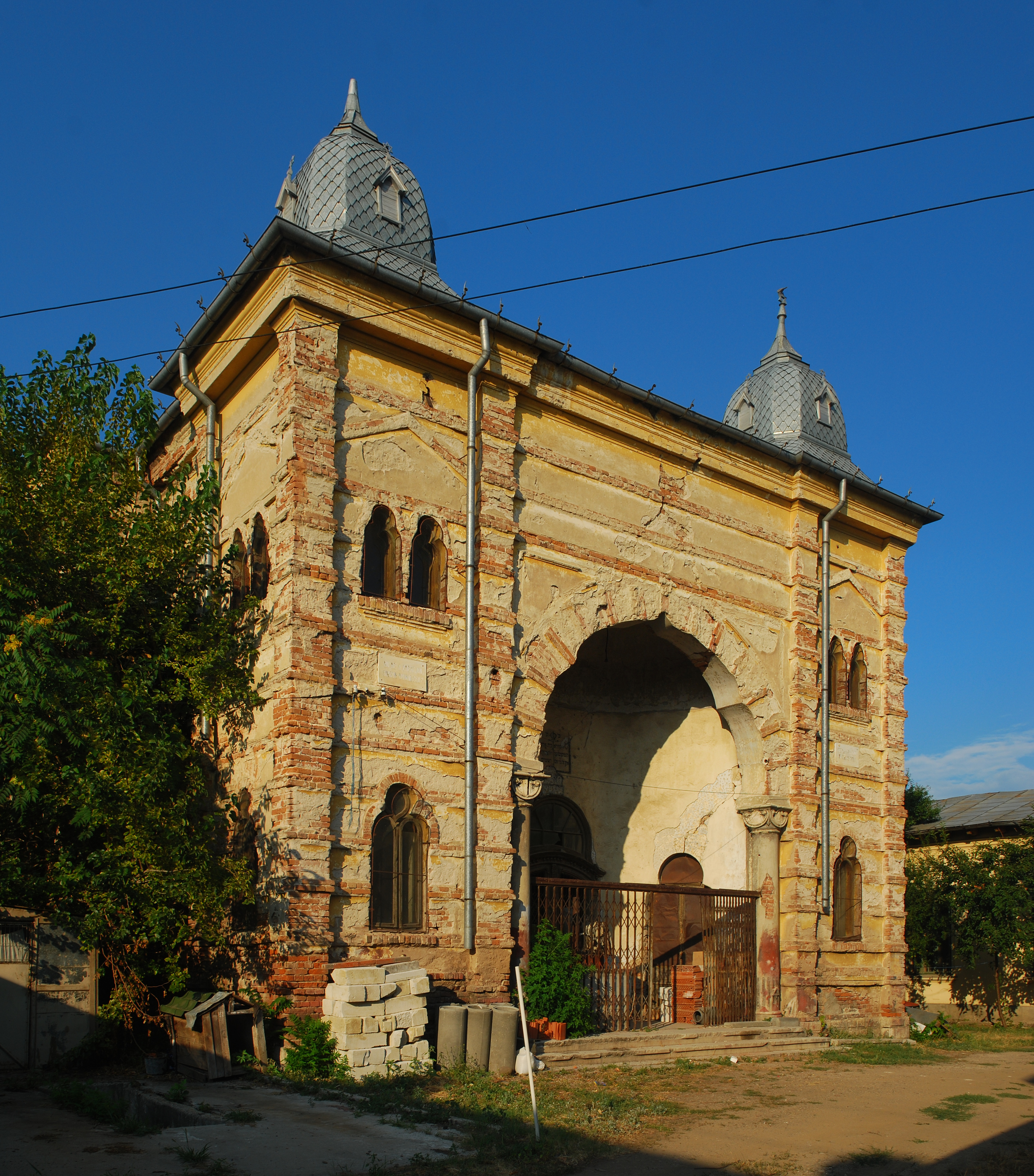 Jewish temple in Buzău, RomaniaRomână: Templul comunității evreiești din Buzău, România